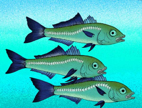 Reconstruction of the primitive jackfish Archaeus oblongus, from the Thanetian epoch of Turkmenistan